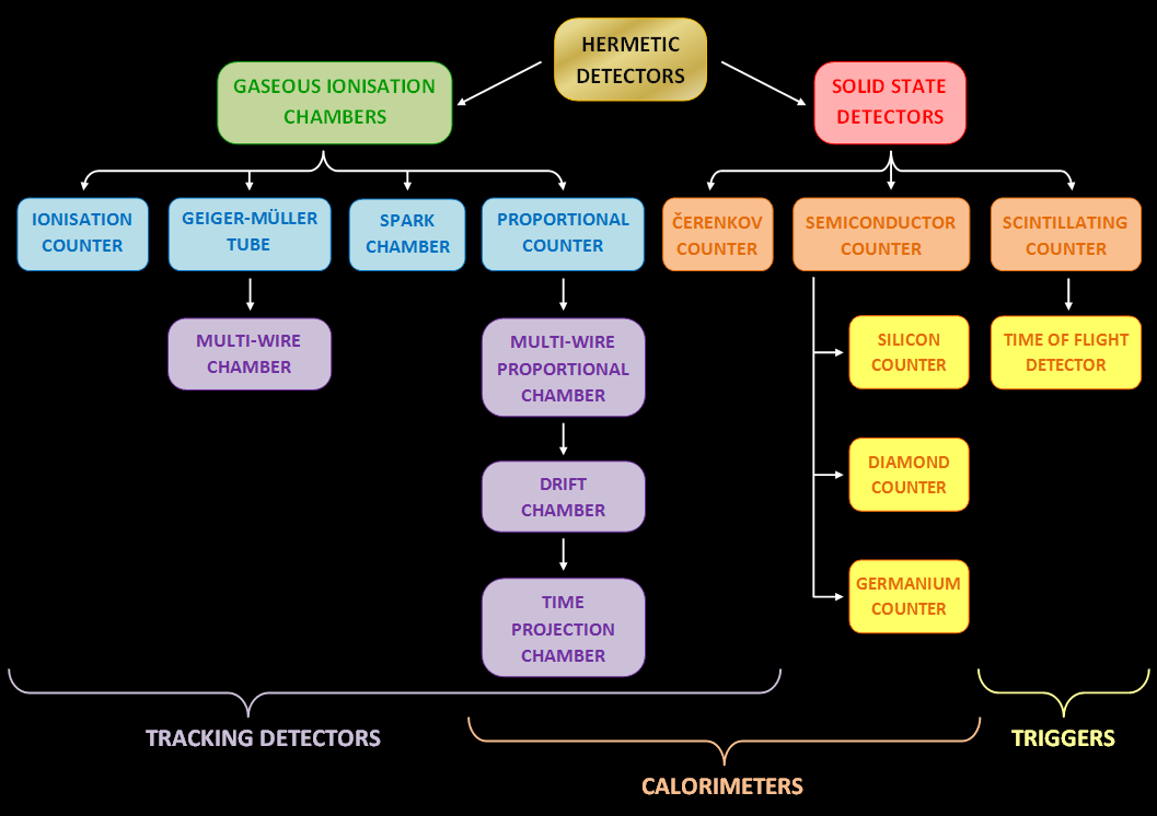 Tree diagram showing the relationship between types and classification of most common particle detectors